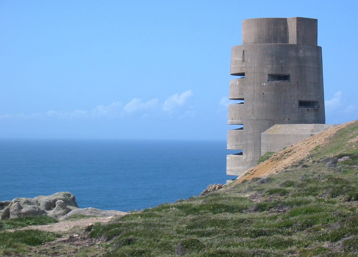 Part of the Atlantic Wall built by the Germans during World War II. This observation tower is situated at Les Landes in St. Ouen, Jersey, and was constructed during the German Occupation of the Channel Islands 1940-1945 Photo taken by Man vyi with Canon PowerShot A40 on 22/5/2005